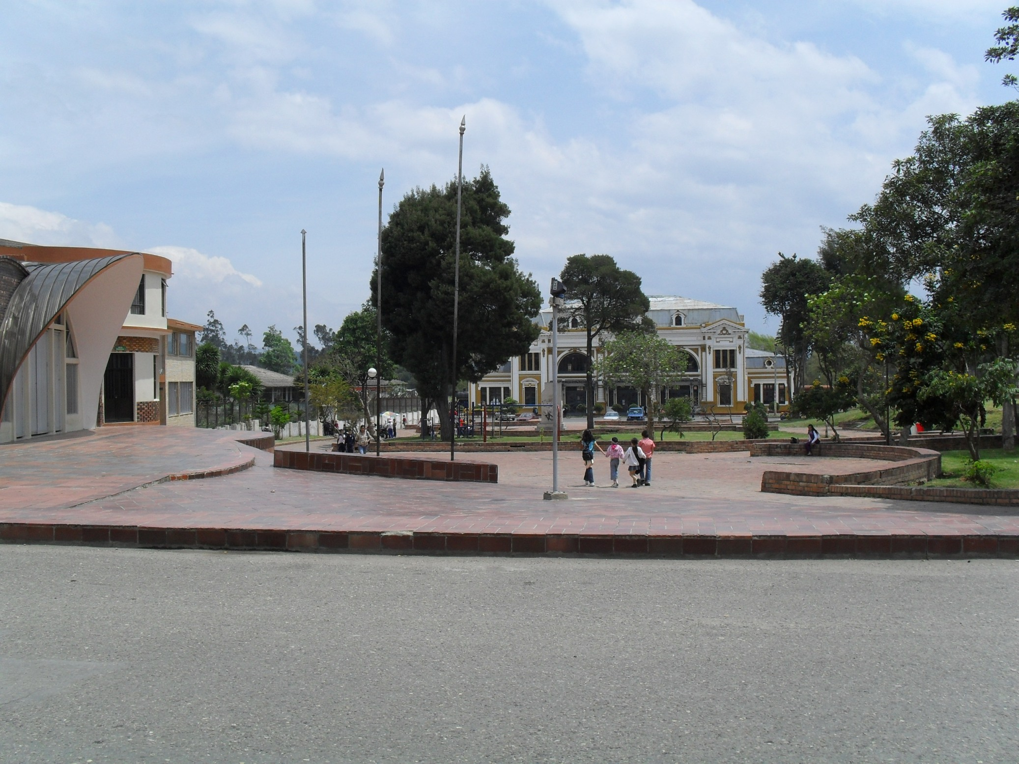 David Guarin's park in the municipality of Chiquinquirá Boyacá Colombia